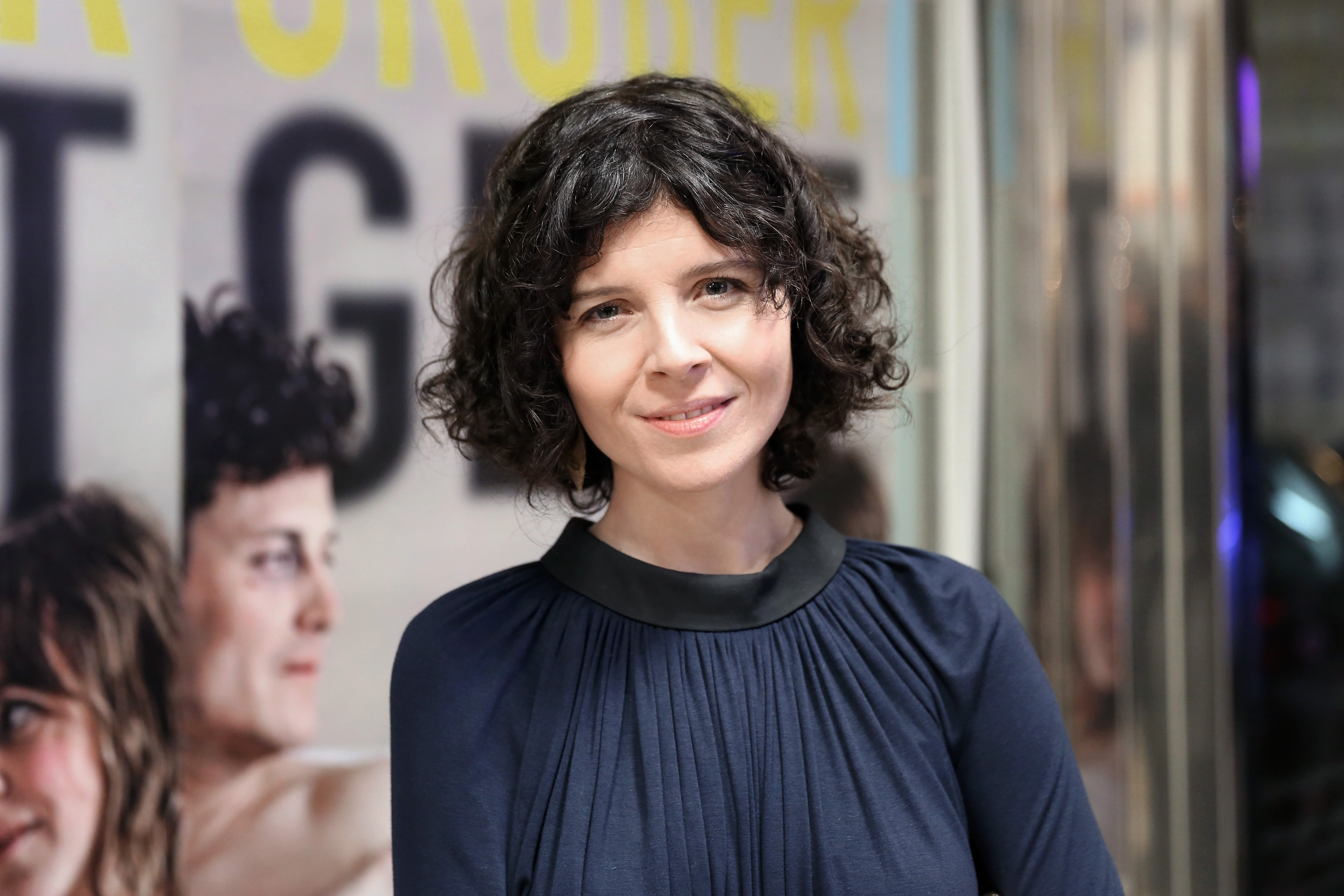 Director Marie Kreutzer at the premiere of the movie Gruber geht at Gartenbaukino in Vienna, Austria.